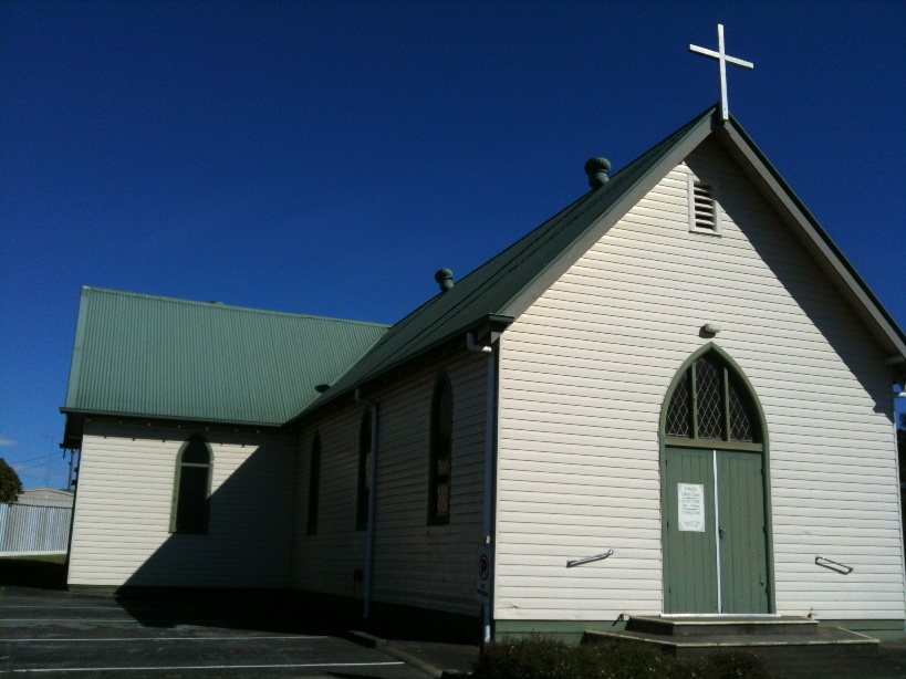 St Brigids Catholic Church